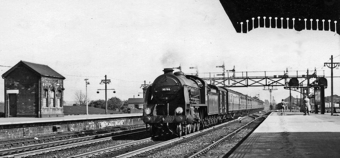 Up Continental Boat express passing Ashford. View eastward from the east end of the main Up platform, towards Folkestone, Dover etc.: ex-SE&CR London - Tonbridge - Dover main line. The locomotive is SR Maunsell N15 'King Arthur' class 4-6-0 No. 30766 'Sir Geraint' (built 5/25, withdrawn 12/58).